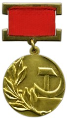 State Prize of Soviet Union medal